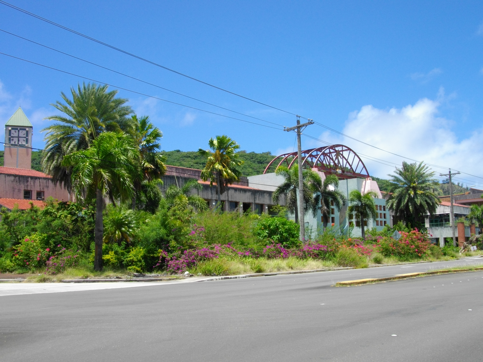 Ruins of La Fiesta San Roque Shopping Plaza